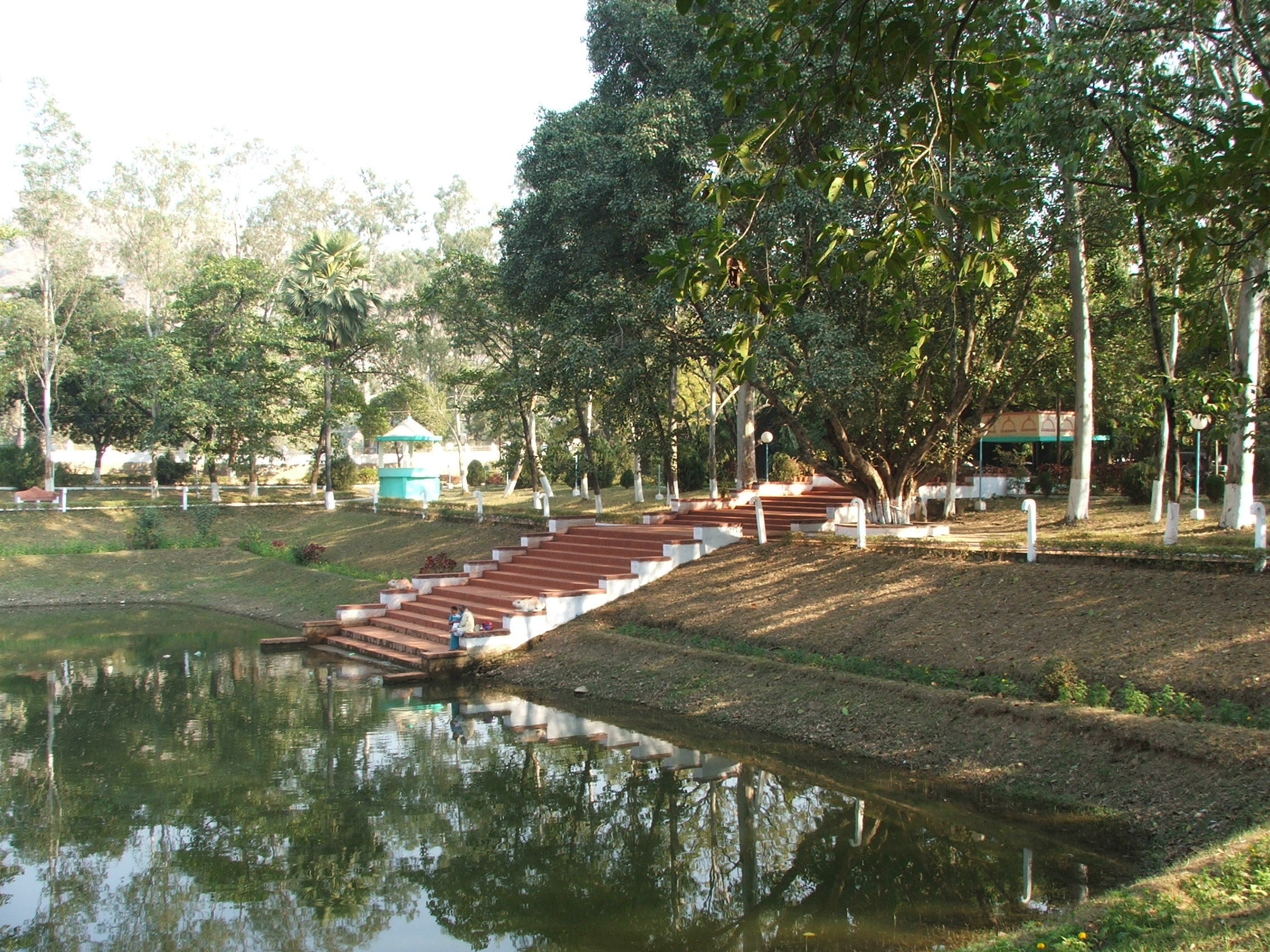 View of the pond at the site of Venuvana Monastery, Rajgir, India. This was the first monastery of the Buddhist Monastic Order, donated by King Bimbisara in the first year after Buddha's enlightenment.